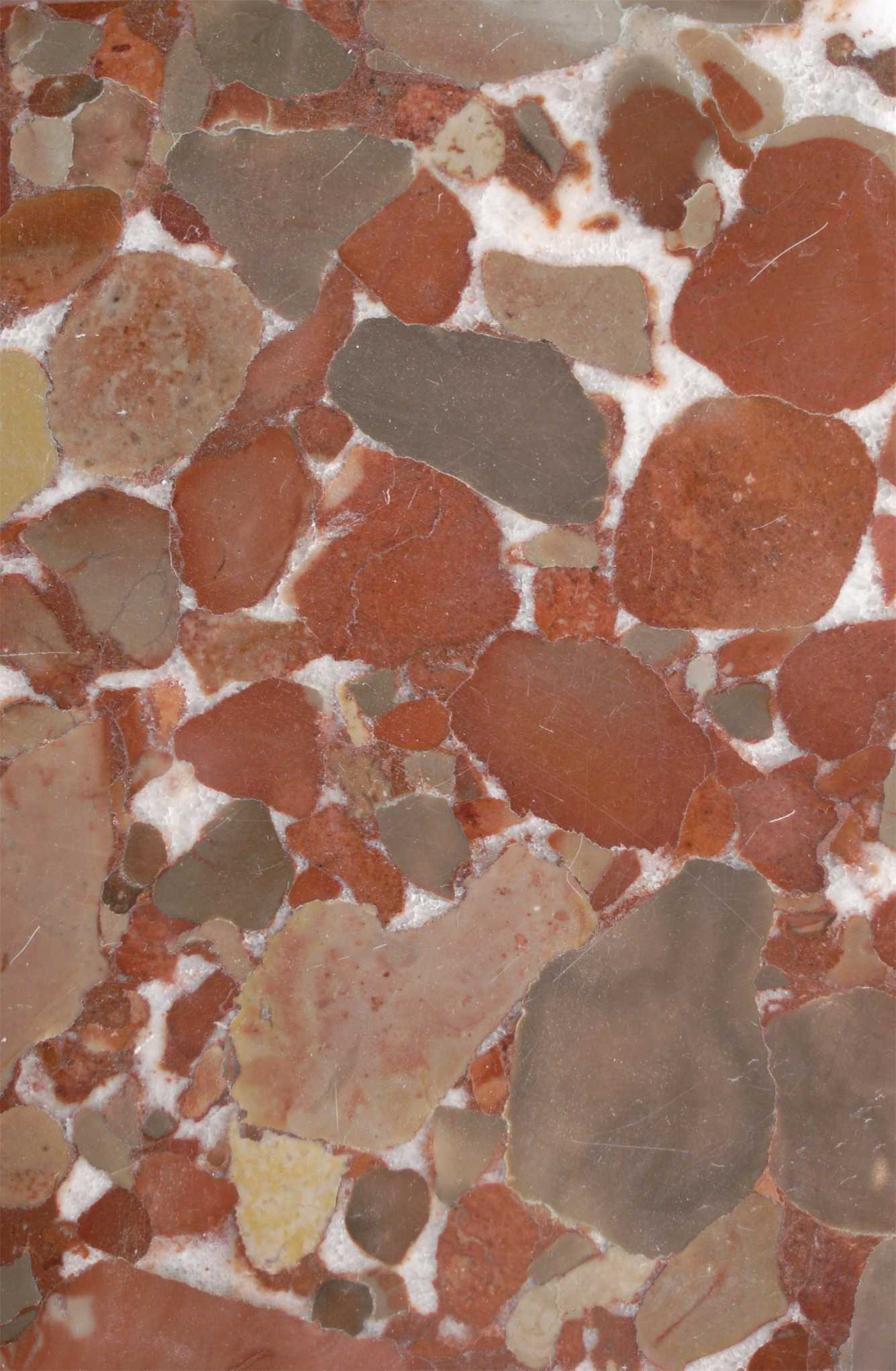 konglomerate, Bulgaria